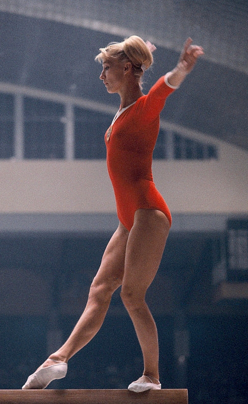 Polina Astakhova at the 1964 Olympics